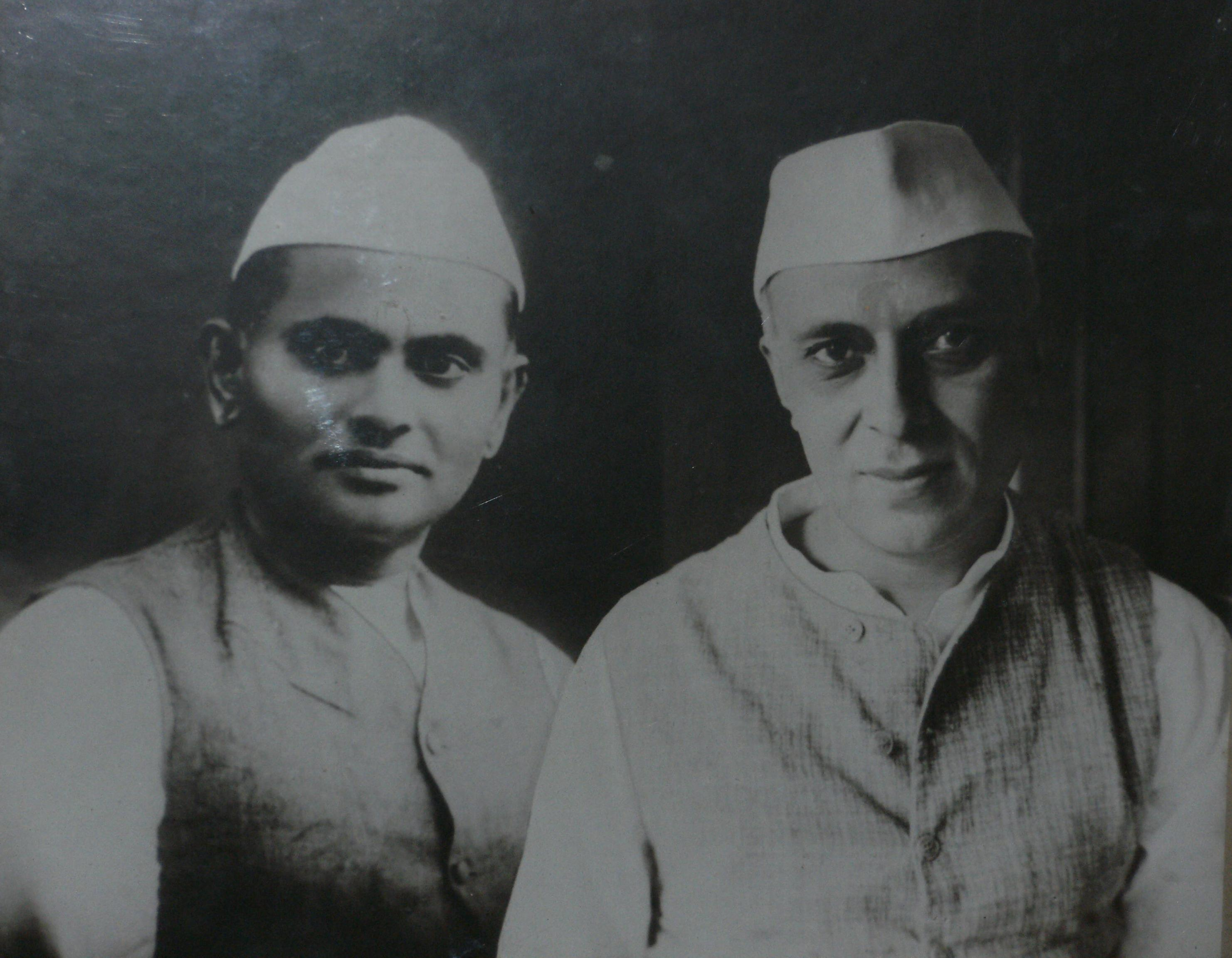 V.RM.letchmanan Chettiar with Nehru